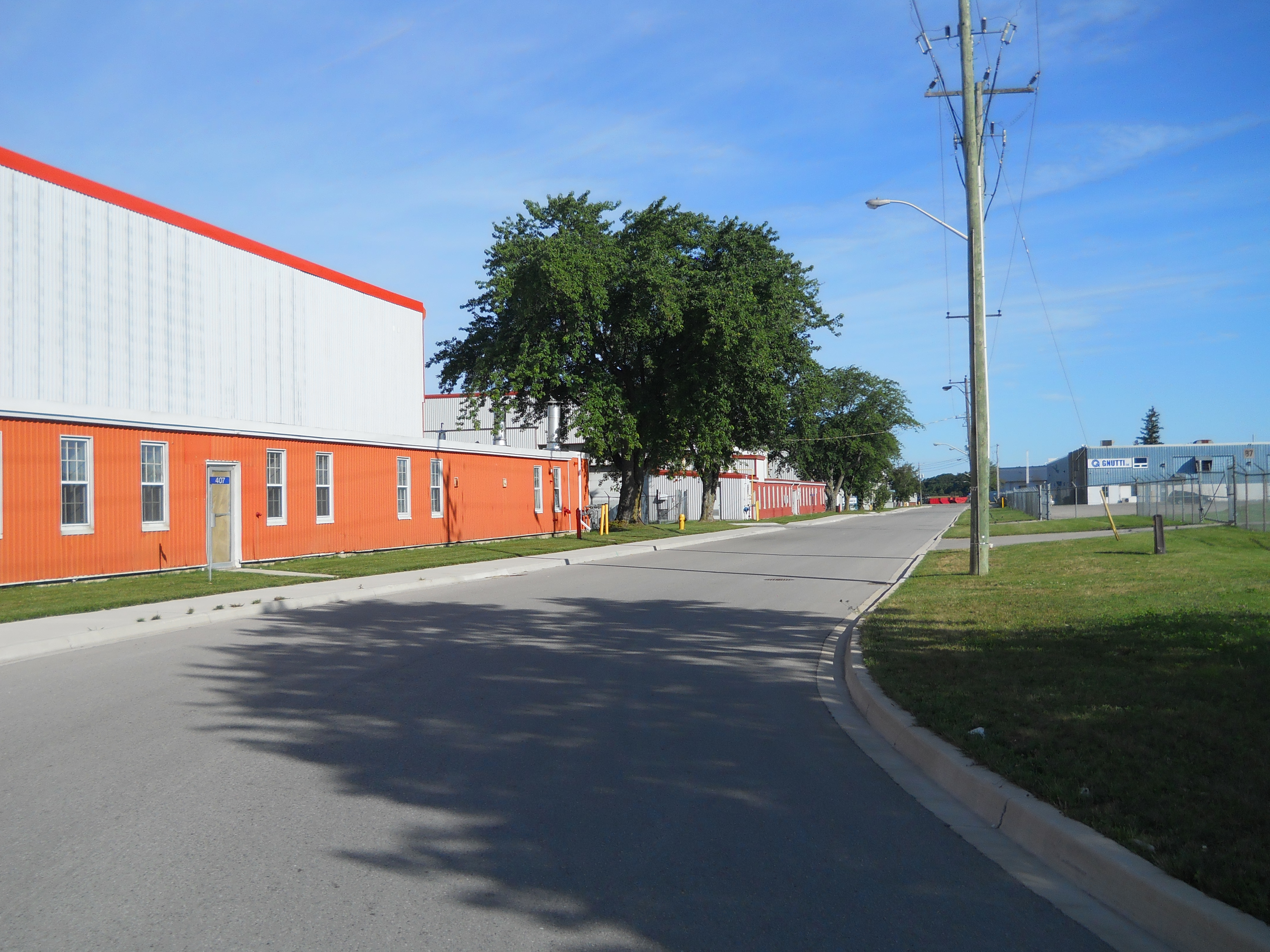 Hangar 4 at left, Hangar 1 in the distance. Apron on the left out of frame.